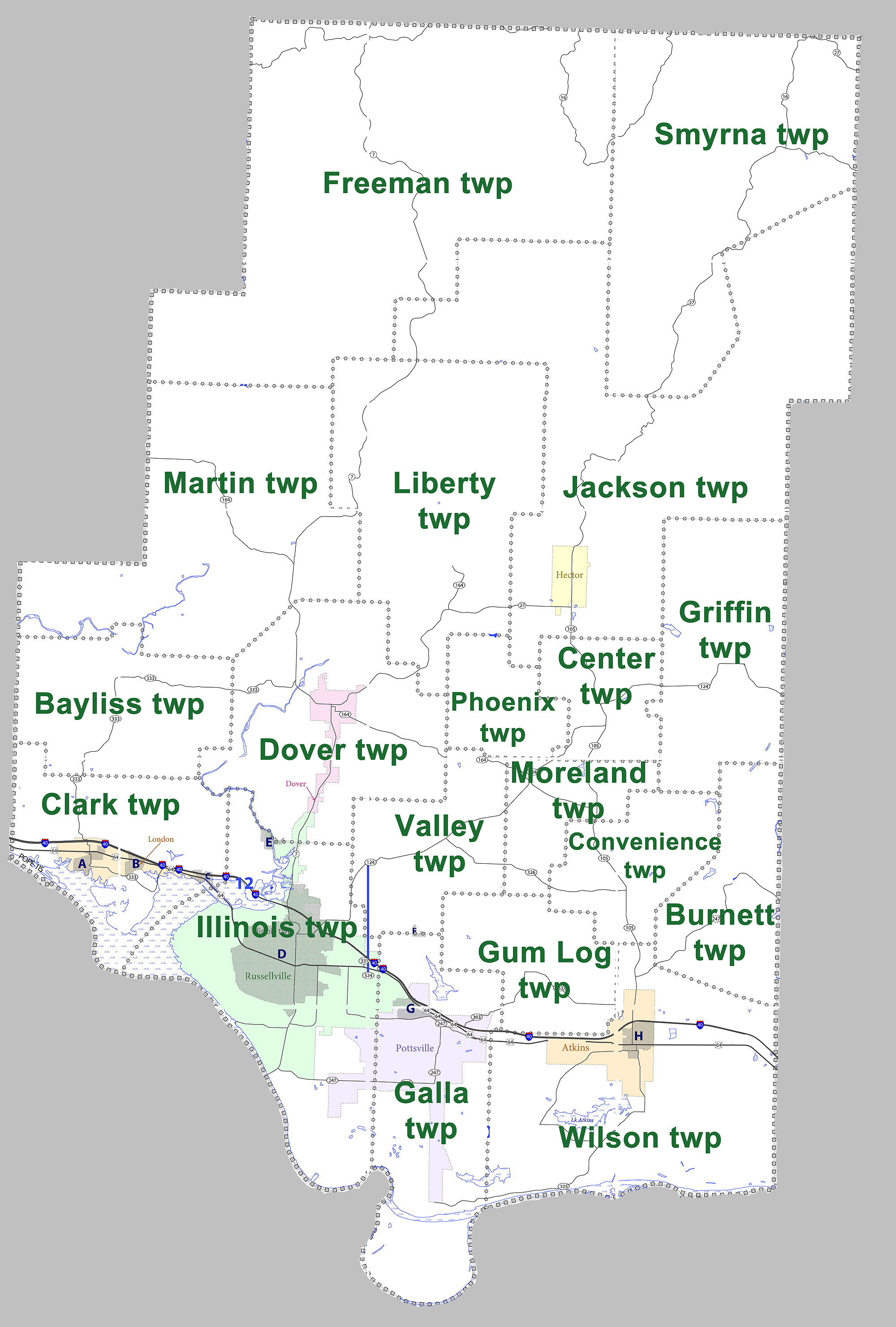 Large map showing townships in Pope County, Arkansas. Modified from US census map (for 2010 census) for Pope County, Arkansas